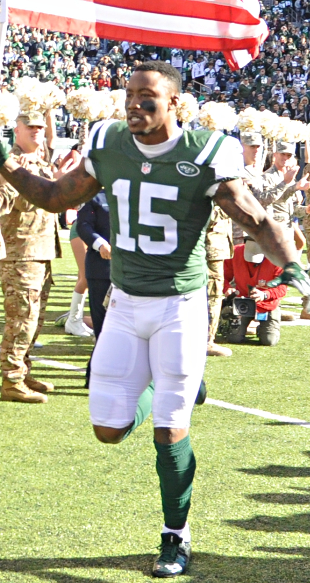 Brandon Marshall in 2015 as a member of the New York Jets.